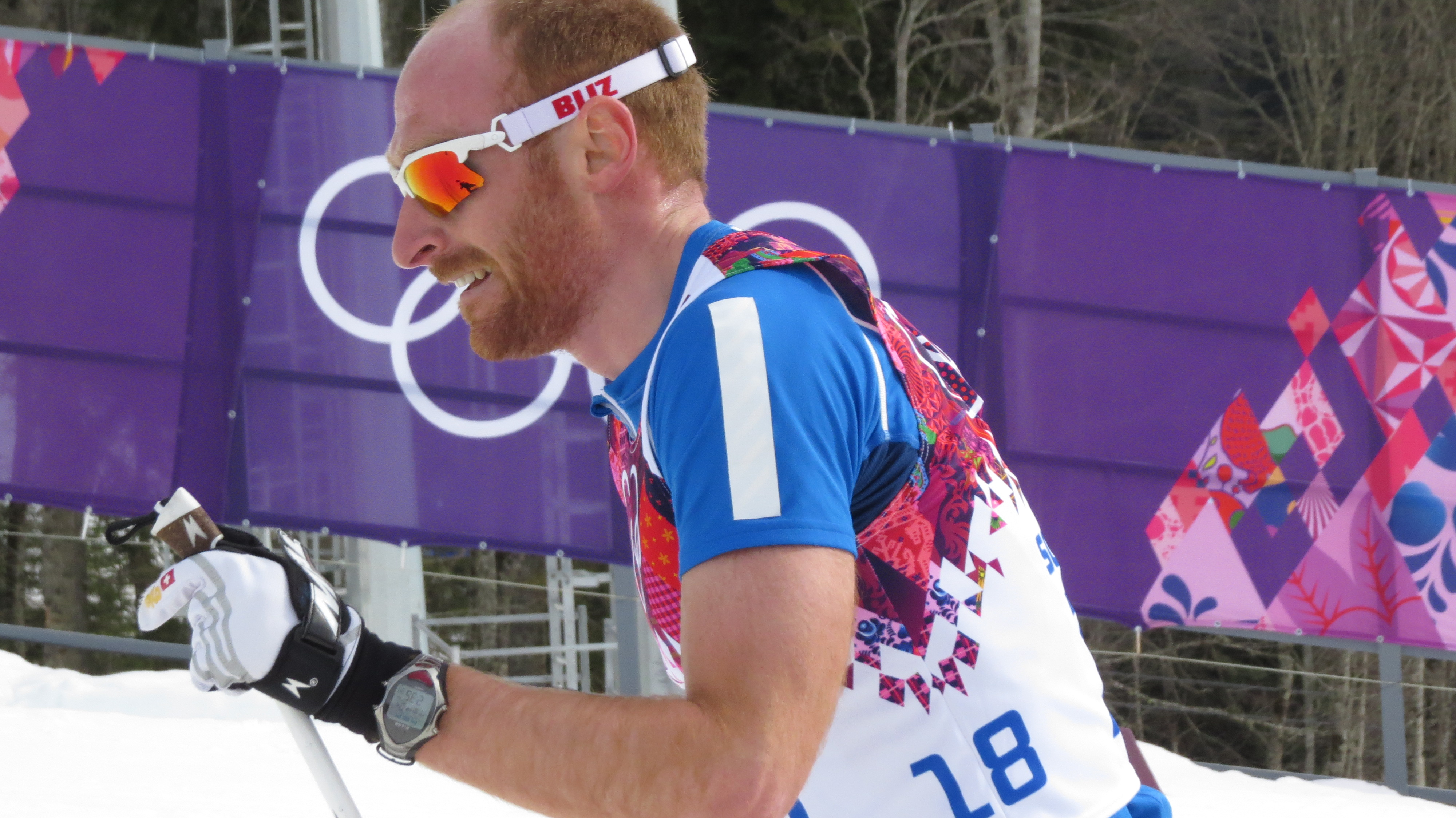 Brian Gregg — Cross-country skiing at the 2014 Winter Olympics - 15 km classic (men)